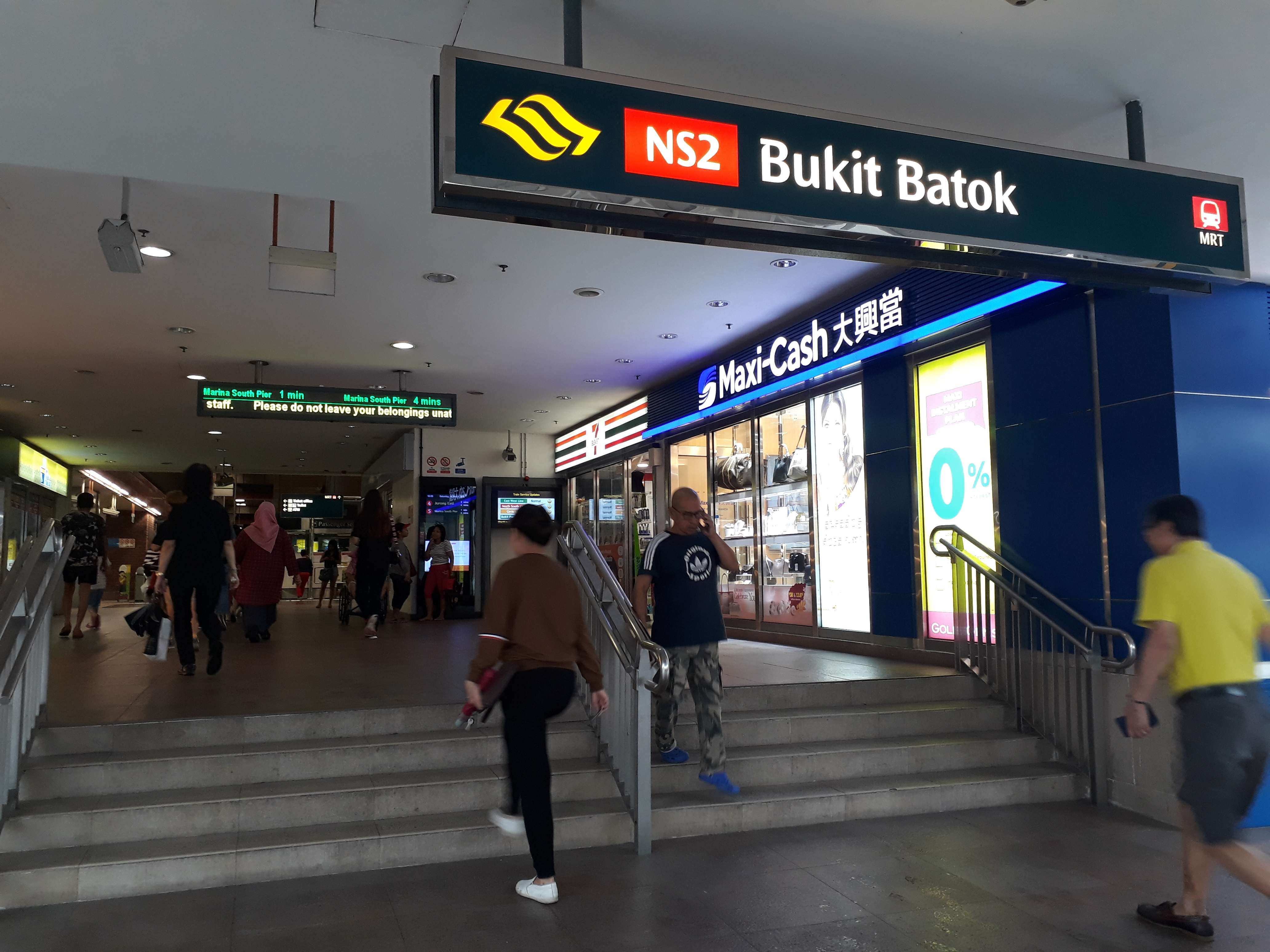 Bukit Batok